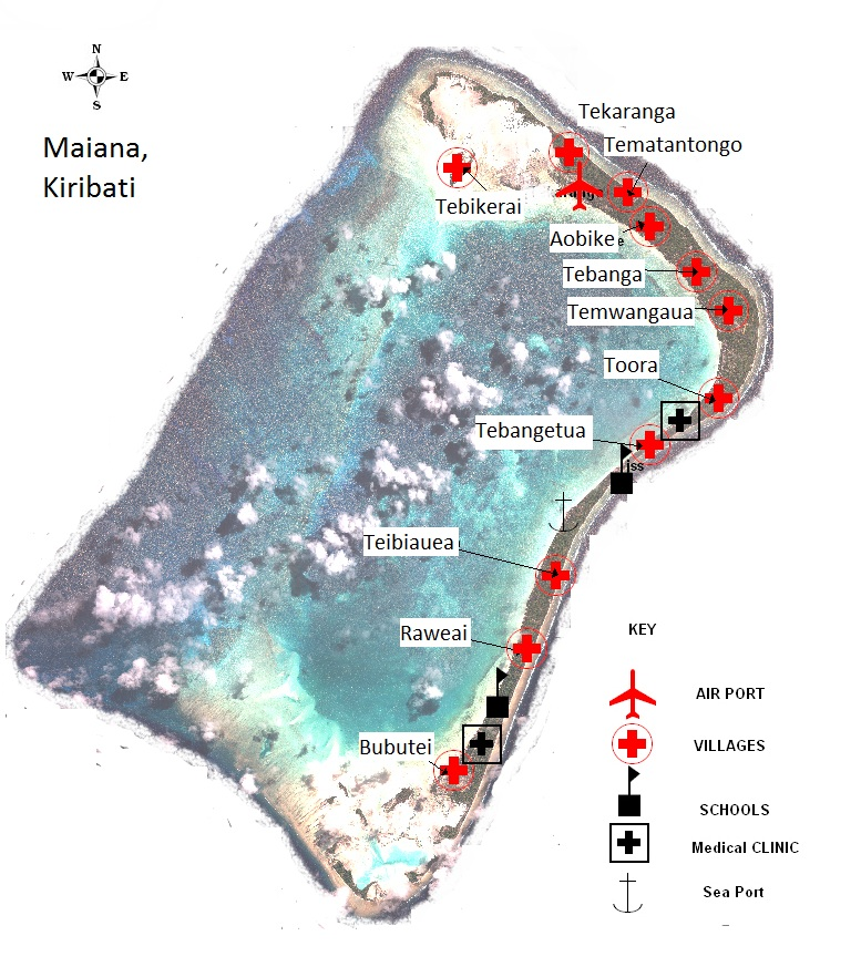 Astronaut photo of Maiana, Kiribati, with villages and main landmarks